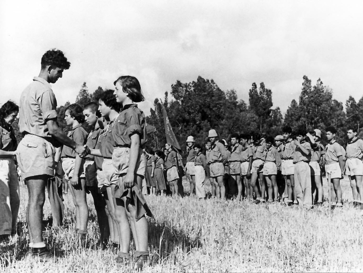 Gan-Shmuel sg9- 31, Events in Israel